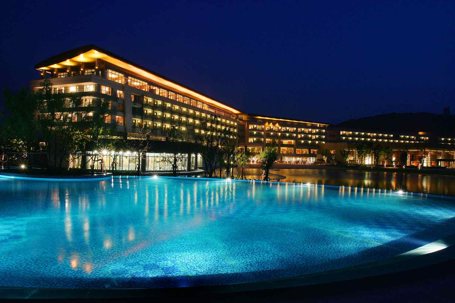 MeridienSheshan night exterio